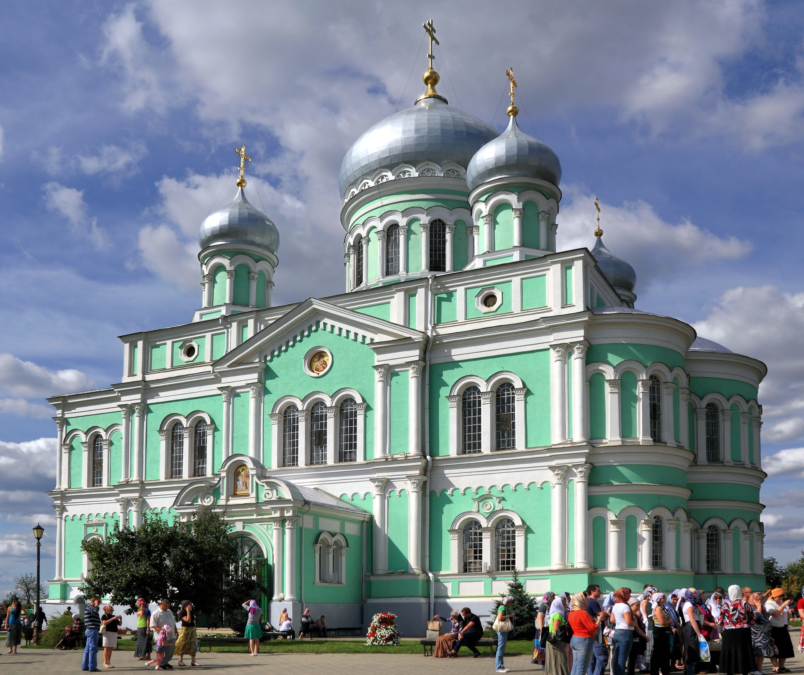 Diveyevo. Serafimo-Diveevsky Monastery. The Trinity Cathedral